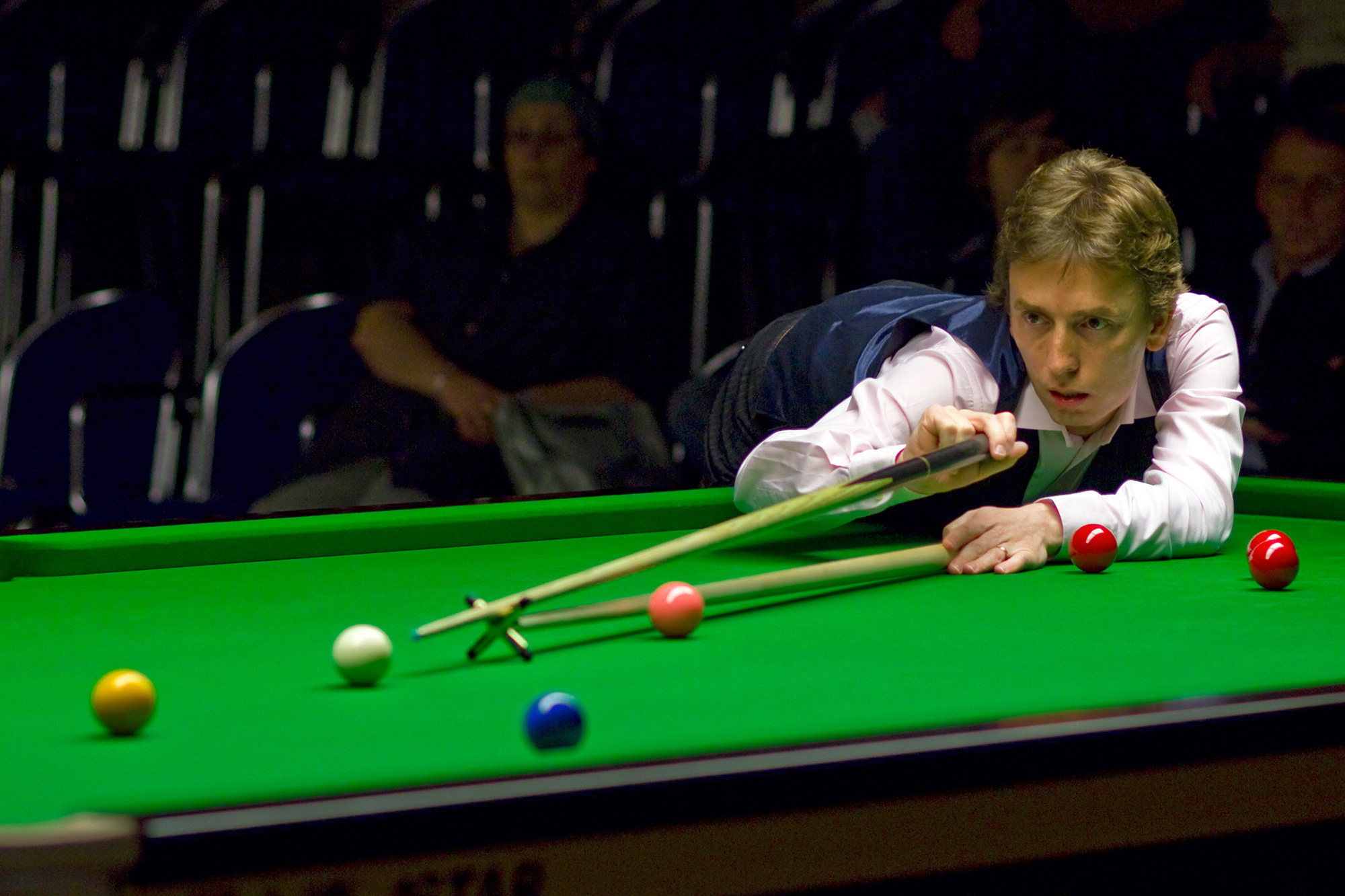 Ken Doherty at the Paul Hunter Classic 2011